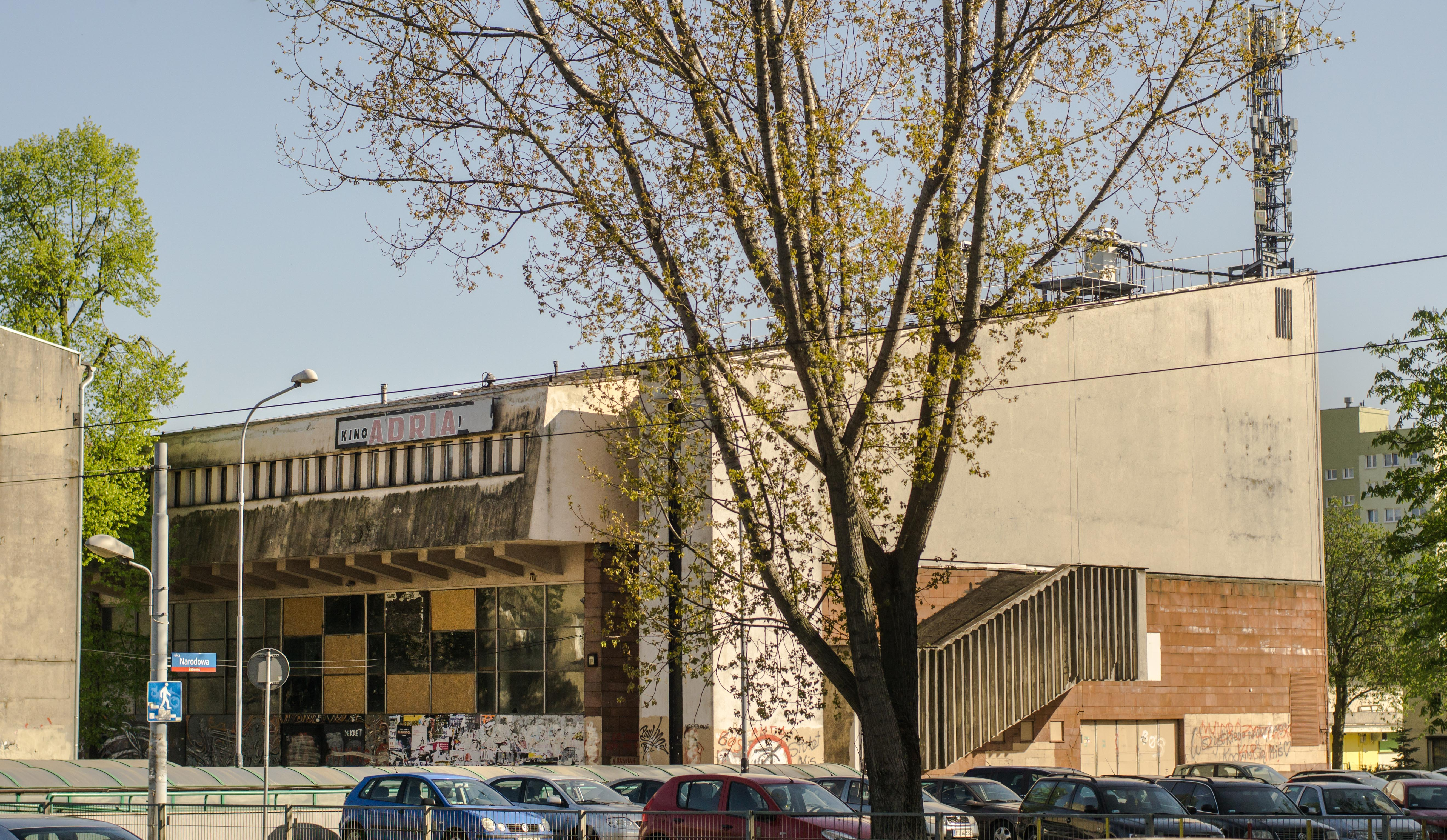 Former "Adria/Iwanowo" cinema in Łódź (Limanowskiego 200)